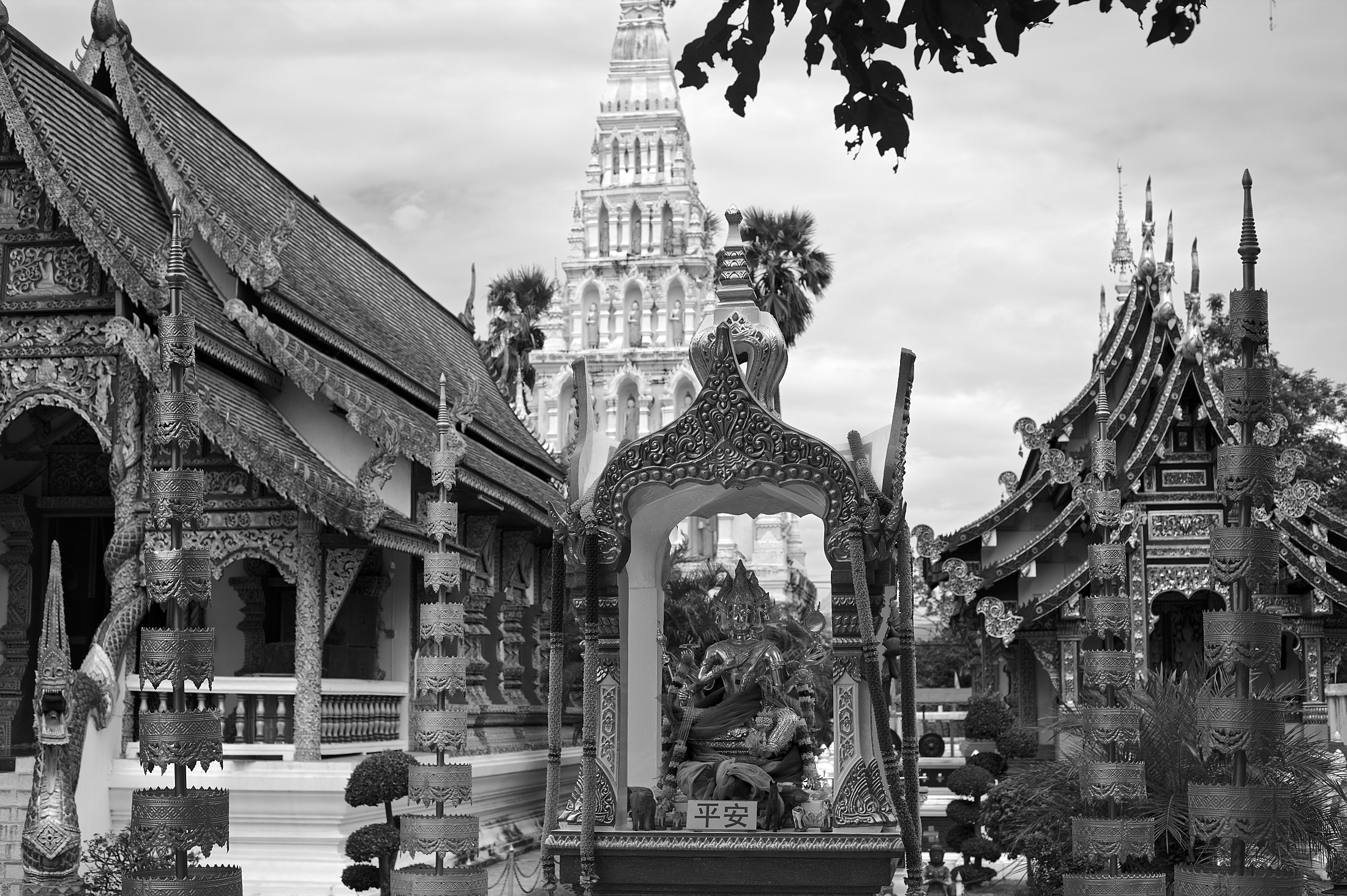 Shrine to Brahma in the grounds of the working temple Wat Chedi Liam (formerly known as Wat Kum Kham), part of the Wiang Kum Kam archaeological site, Chiang Mai, northern Thailand. The '平安' label in Chinese means "Peace". The temples at mid-ground were restored in a Burmese style by a Burmese benefactor, and the rear pagoda, known as Chedi Liam, is an ancient replica of a similar structure in Lamphun (then Haripunchai) from the Mon period.